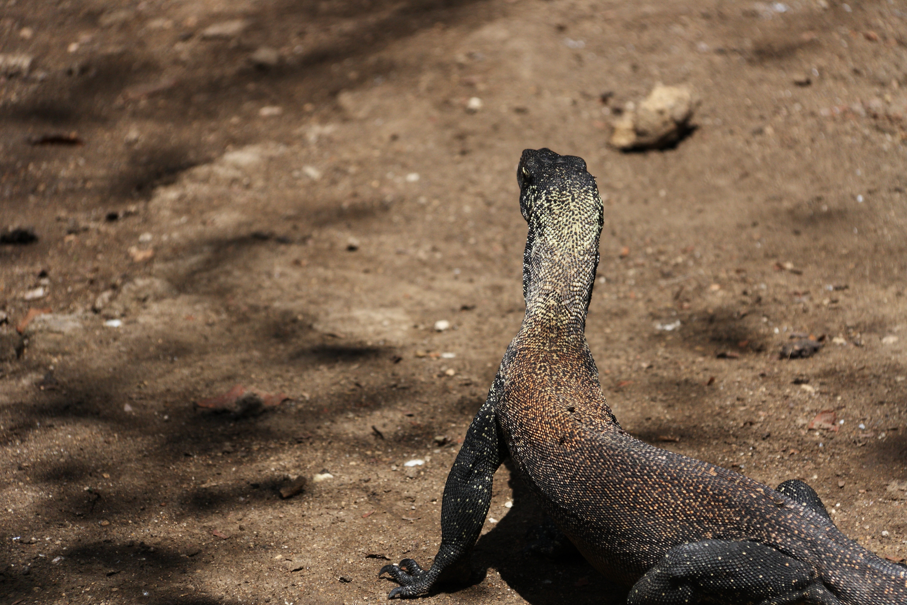 Juvenile Komodo dragon (Varanus komodoensis) at Rinca Island (Indonesia)